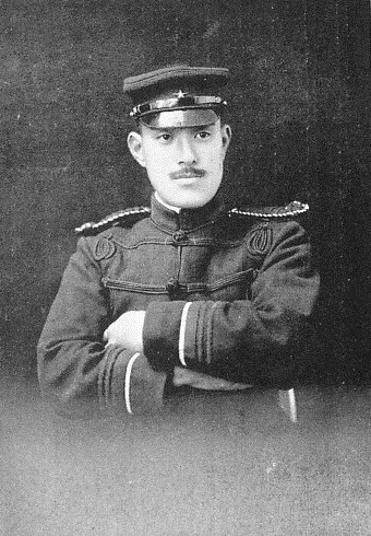 Naohisa Matsudaira